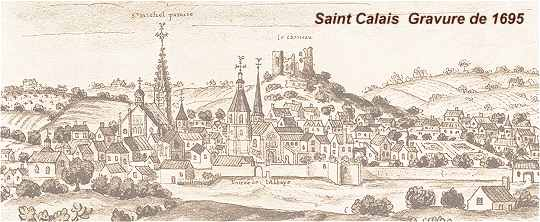 Gravure de la ville de St Calais (Sarthe) de 1695.